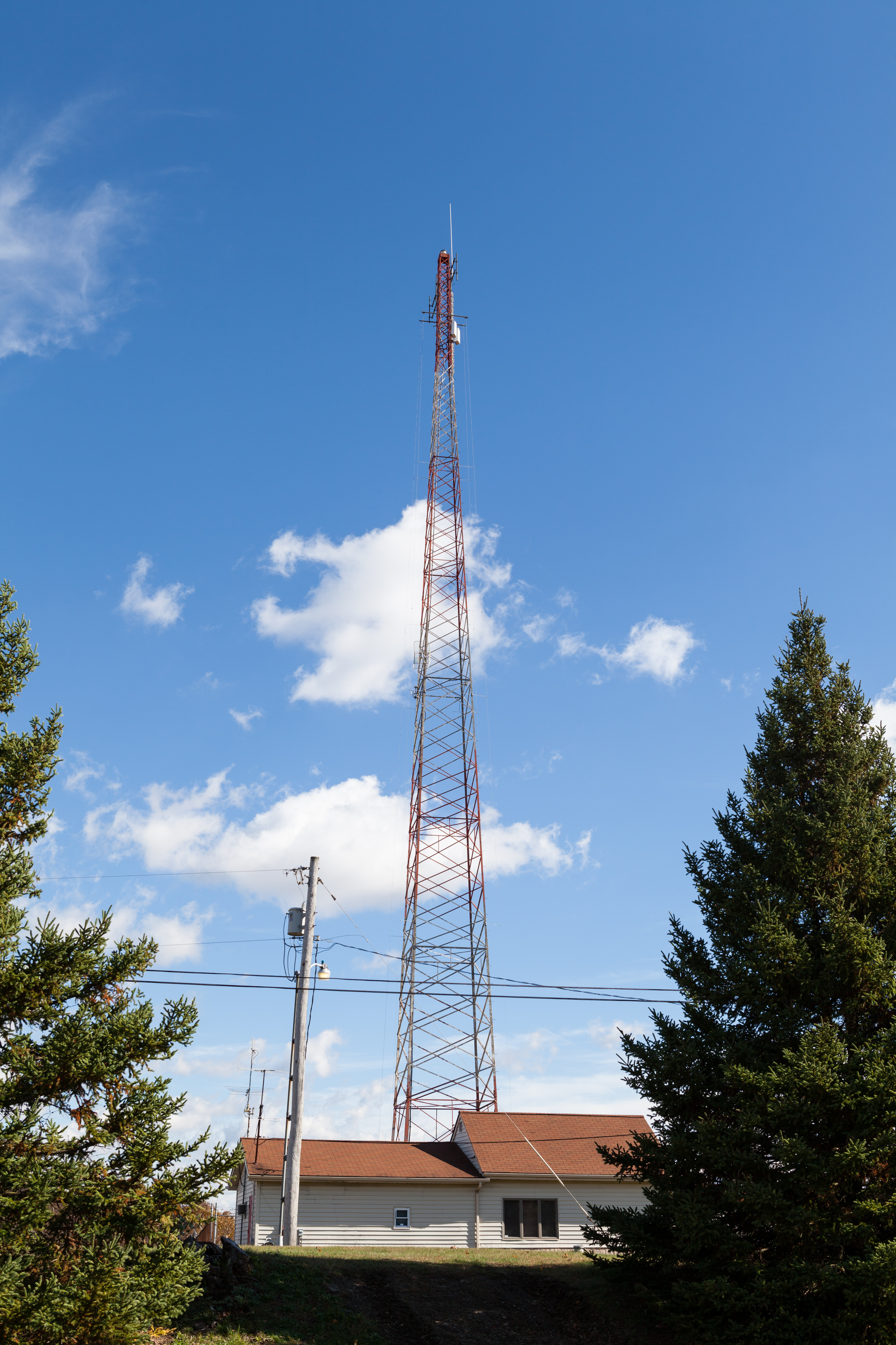 WTYM (AM) and WKHU-CD (TV) tower at 104 Gellner Lane, Kittanning, PA, seen from the west. WKHU simulcasts WEPA-CD. The tower supports a folded unipole for AM, and a two-panel one-bay directional TV antenna pointing ssw.